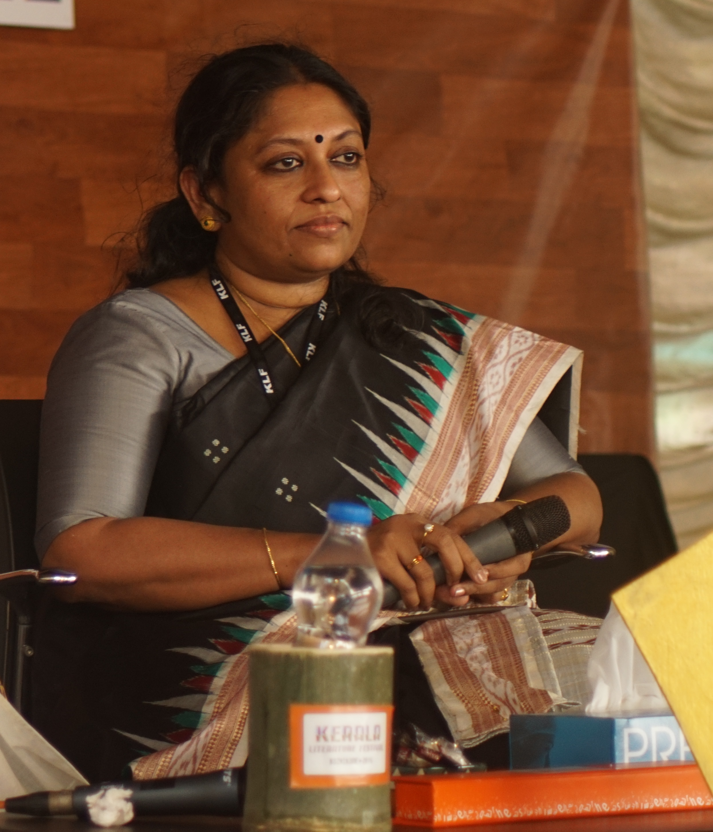 K R Meera , Anita Nair.KLF-2016